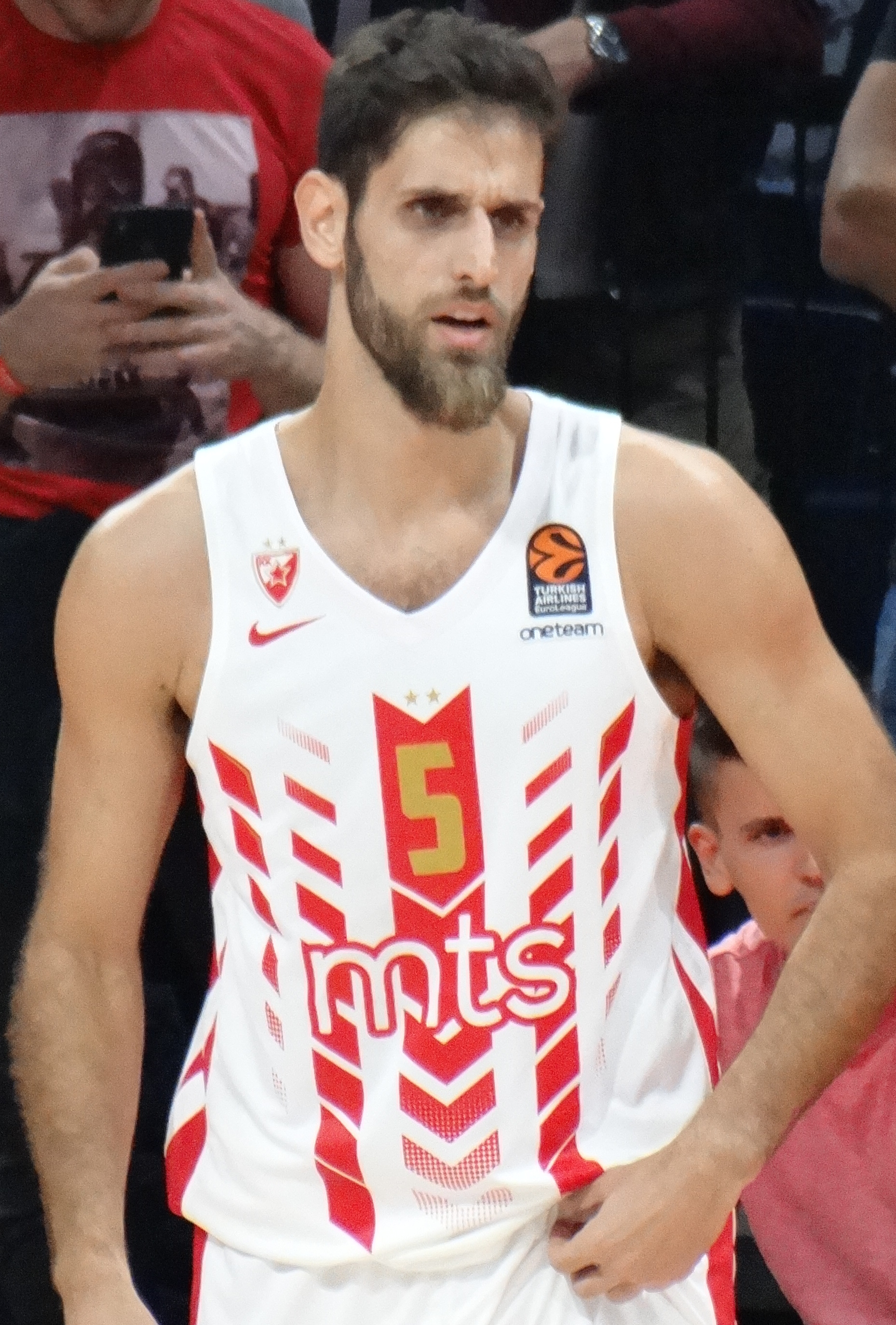 Stratos Perperoglou 5 KK Crvena zvezda EuroLeague 20191010